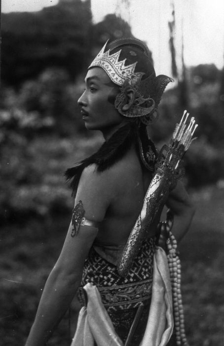 Javanese dancer with traditional costume of a noble prince, Jawa